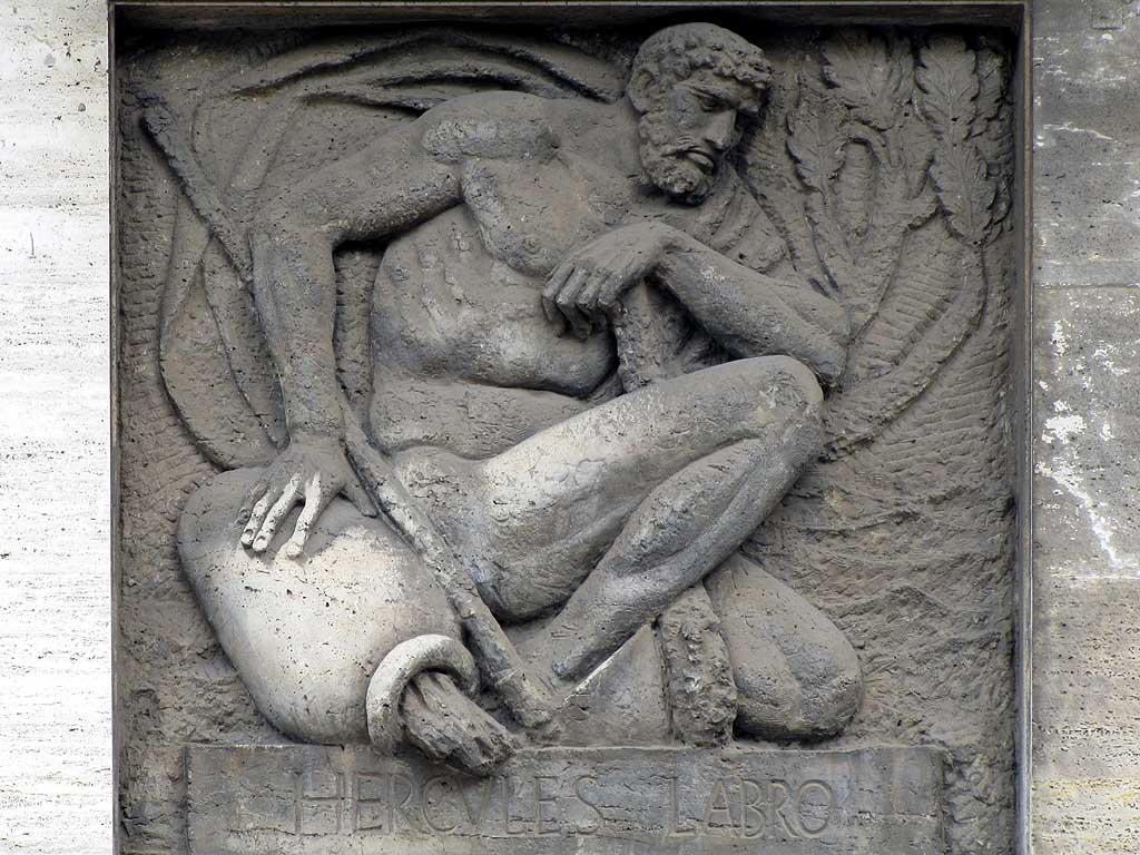 Bas-relief of Hercules Labro on the facade of a building, piazza Cavour, Livorno